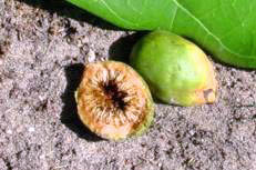 Accessory fruit of Ficus lyrata. Photo by M. A. P. Accardo Filho.